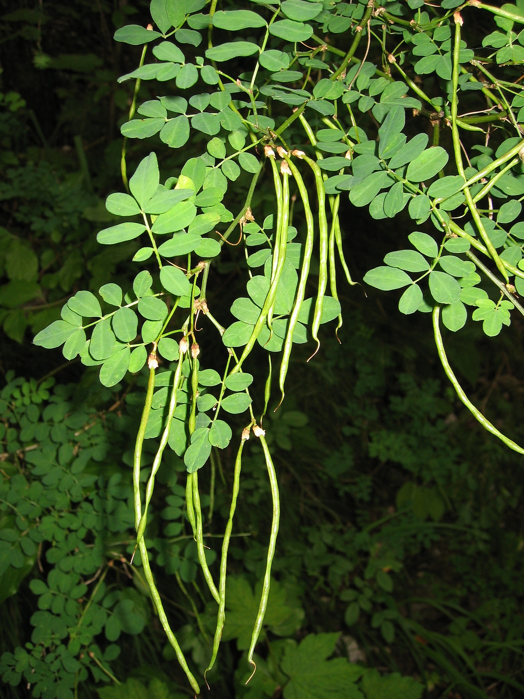 Fruits of Hippocrepis emerus Near Traunsee, Upper Austria, Austria